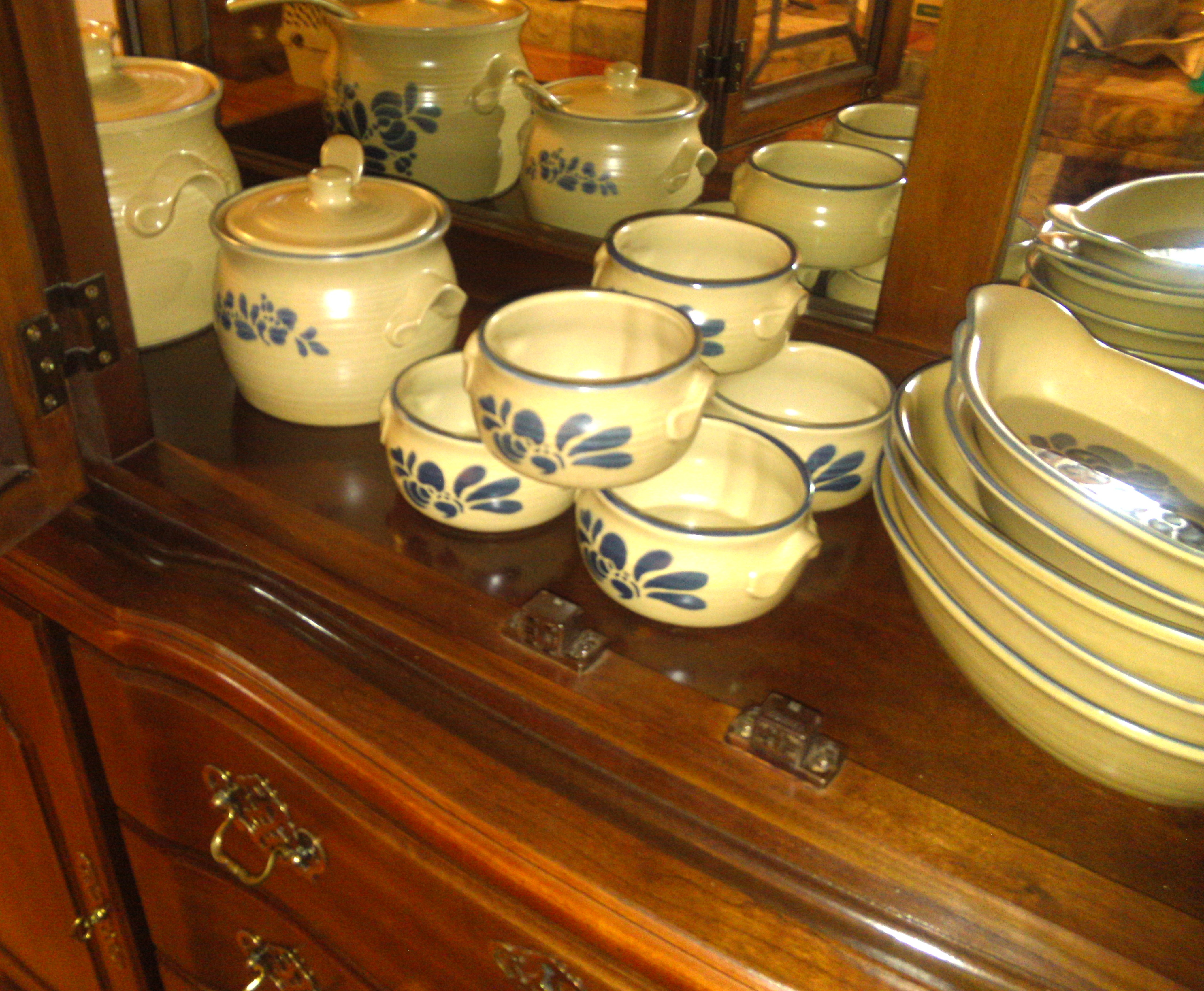 Pfaltzgraff Folk Art stoneware (1977 to 1983) modeled on early American salt glazed pottery (Family collection; uploaded by Fowler&fowler (talk))